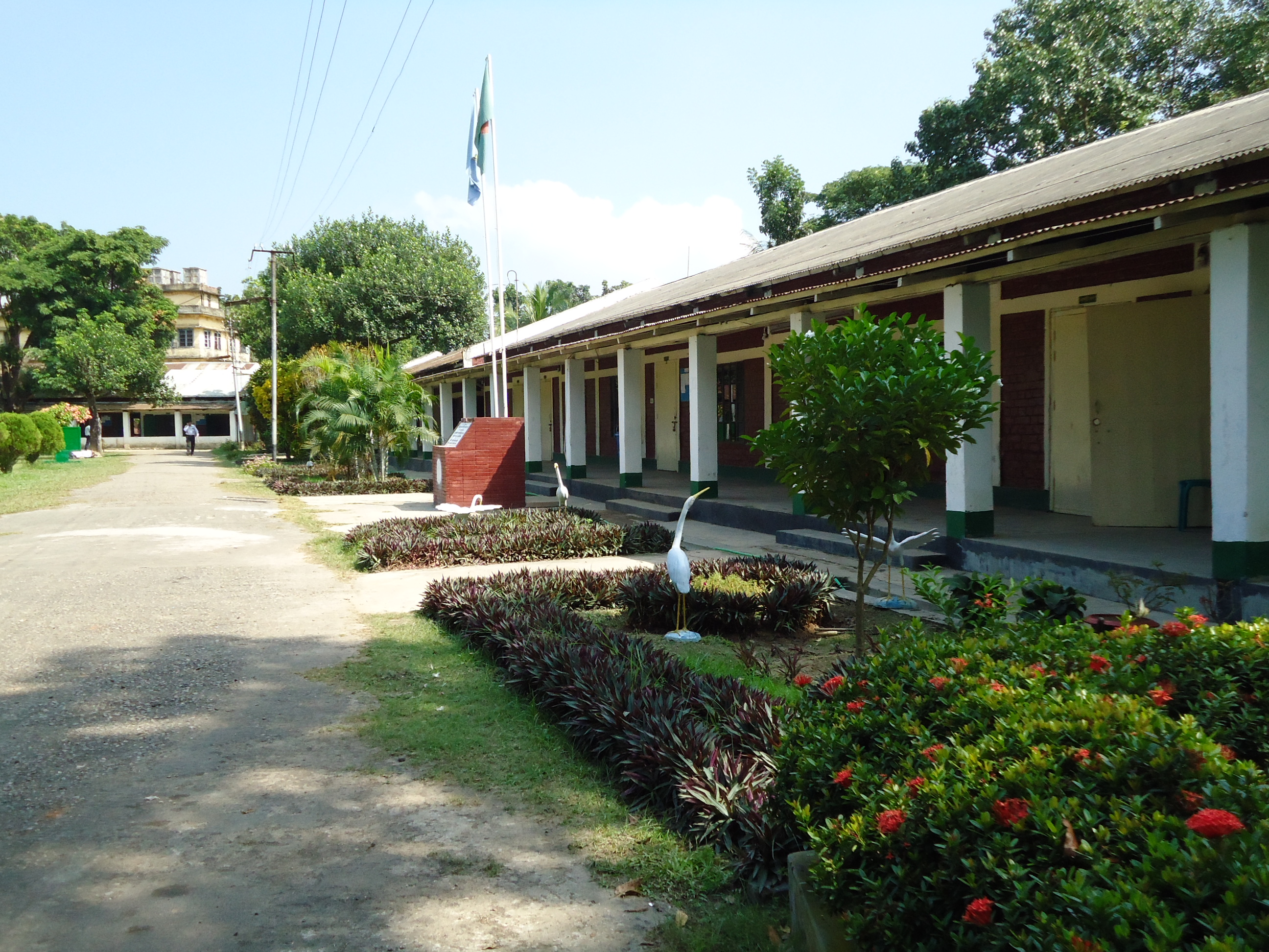 Zirabo Cantonment Public School